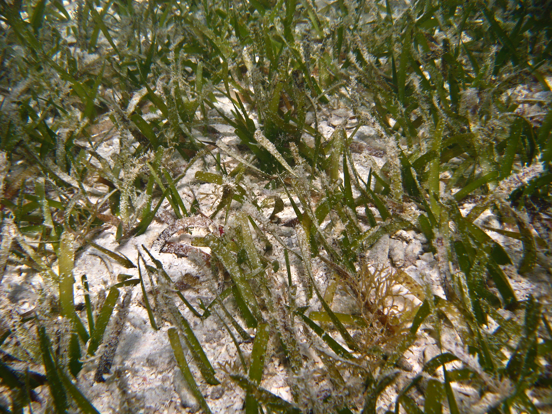 Submberged Resources of Dry Tortugas National Park. National Park Service photo taken by John Dengler.